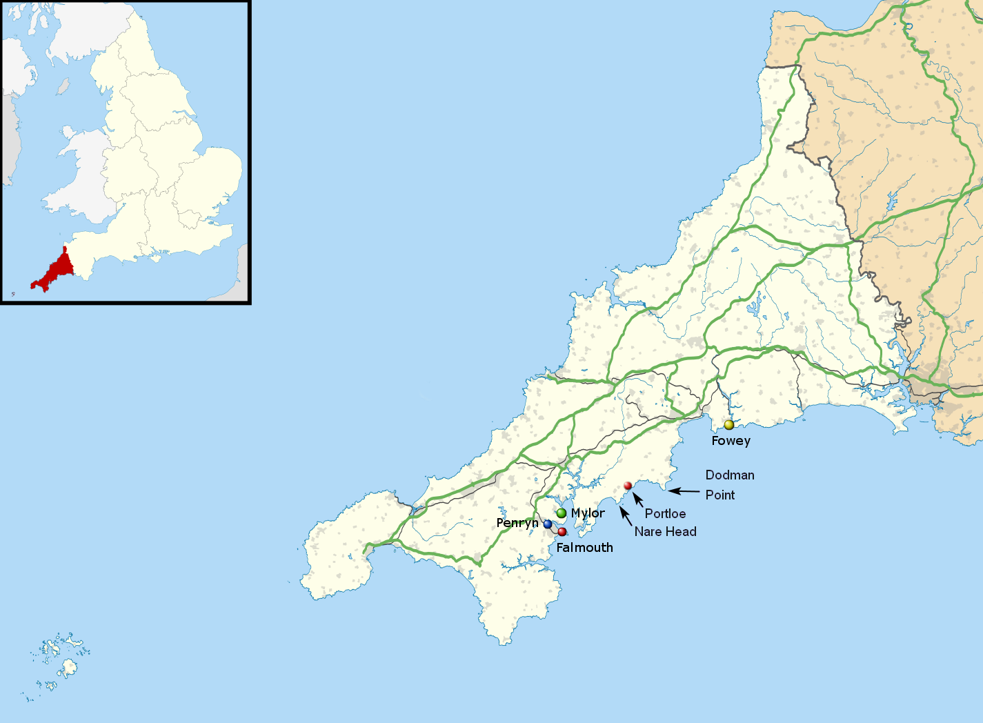 Map of Cornwall, UK (excluding the Isles of Scilly) with the following information shown: Administrative borders Coastline, lakes and rivers Roads and railways Urban areas Equirectangular map projection on WGS 84 datum, with N/S stretched 150% Geographic limits: West: 5.8W East: 4.1W North: 51.0N South: 49.9N Map shows the positions of five Cornish towns: Falmouth, Penryn, Mylor, Portloe and Fowey, also Nare Head and Dodman Point